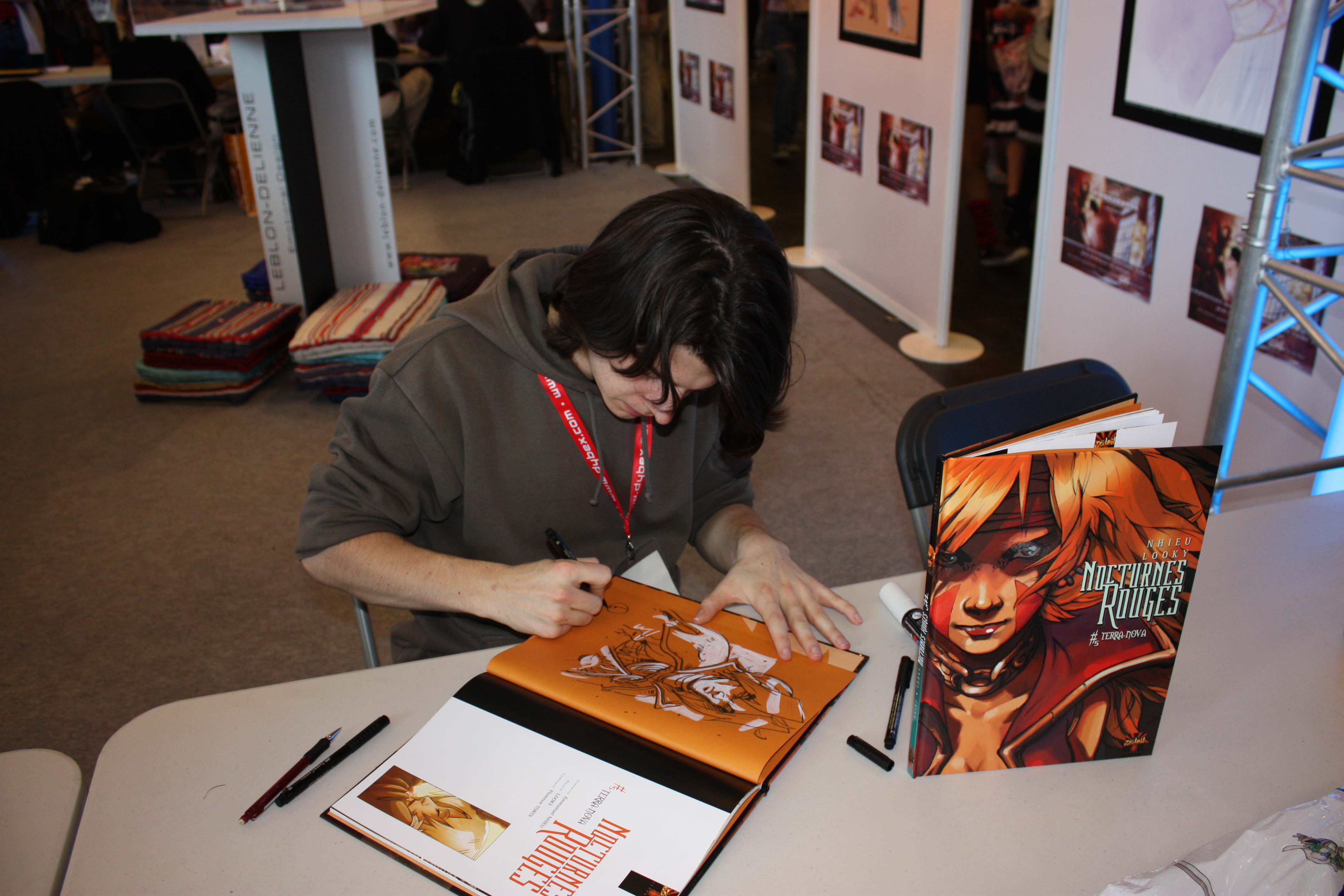 Autograph session with Looky at Japan Expo 2008 (Paris, France)